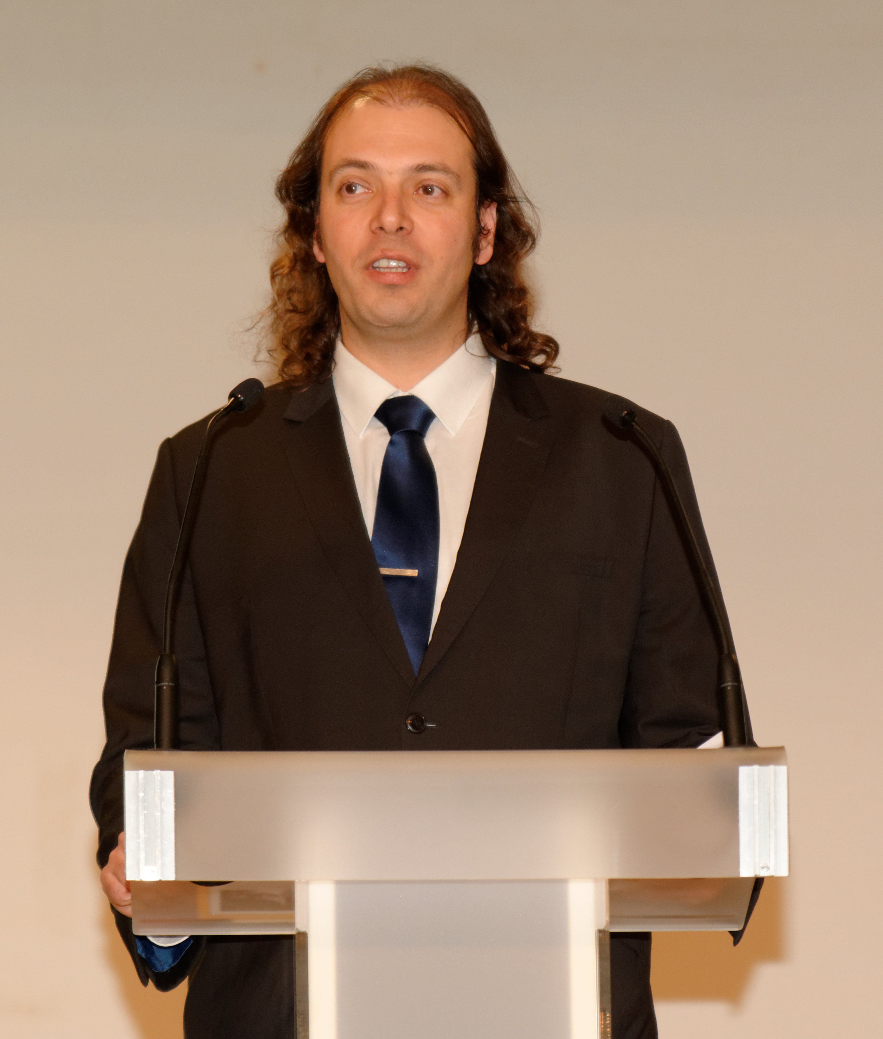 Personality rights warningAlthough this work is freely licensed or in the public domain, the person(s) shown may have rights that legally restrict certain re-uses unless those depicted consent to such uses. In these cases, a model release or other evidence of consent could protect you from infringement claims.